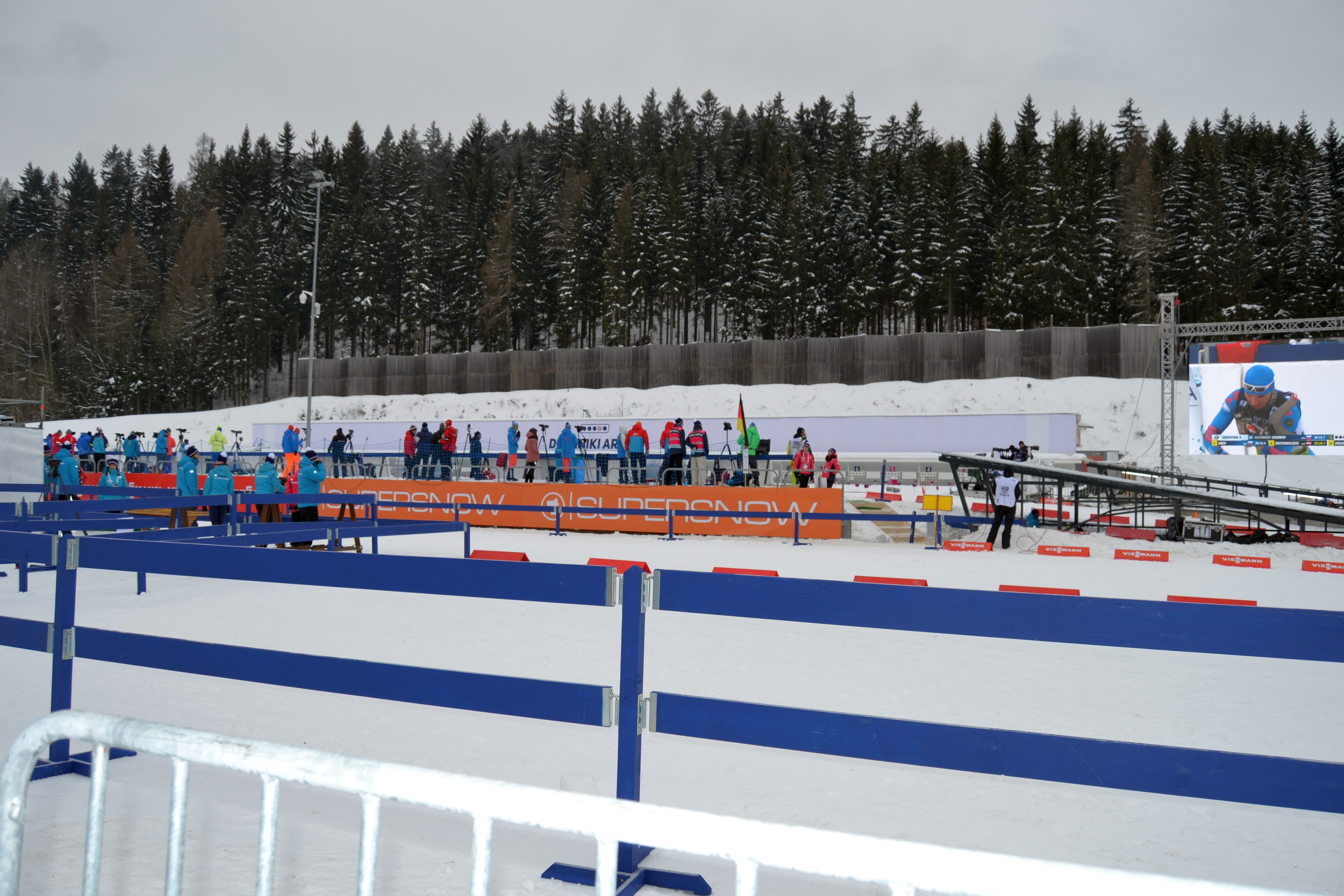 Open European Championships Biathlon 2017, Individual Men's race, held on January 25th.